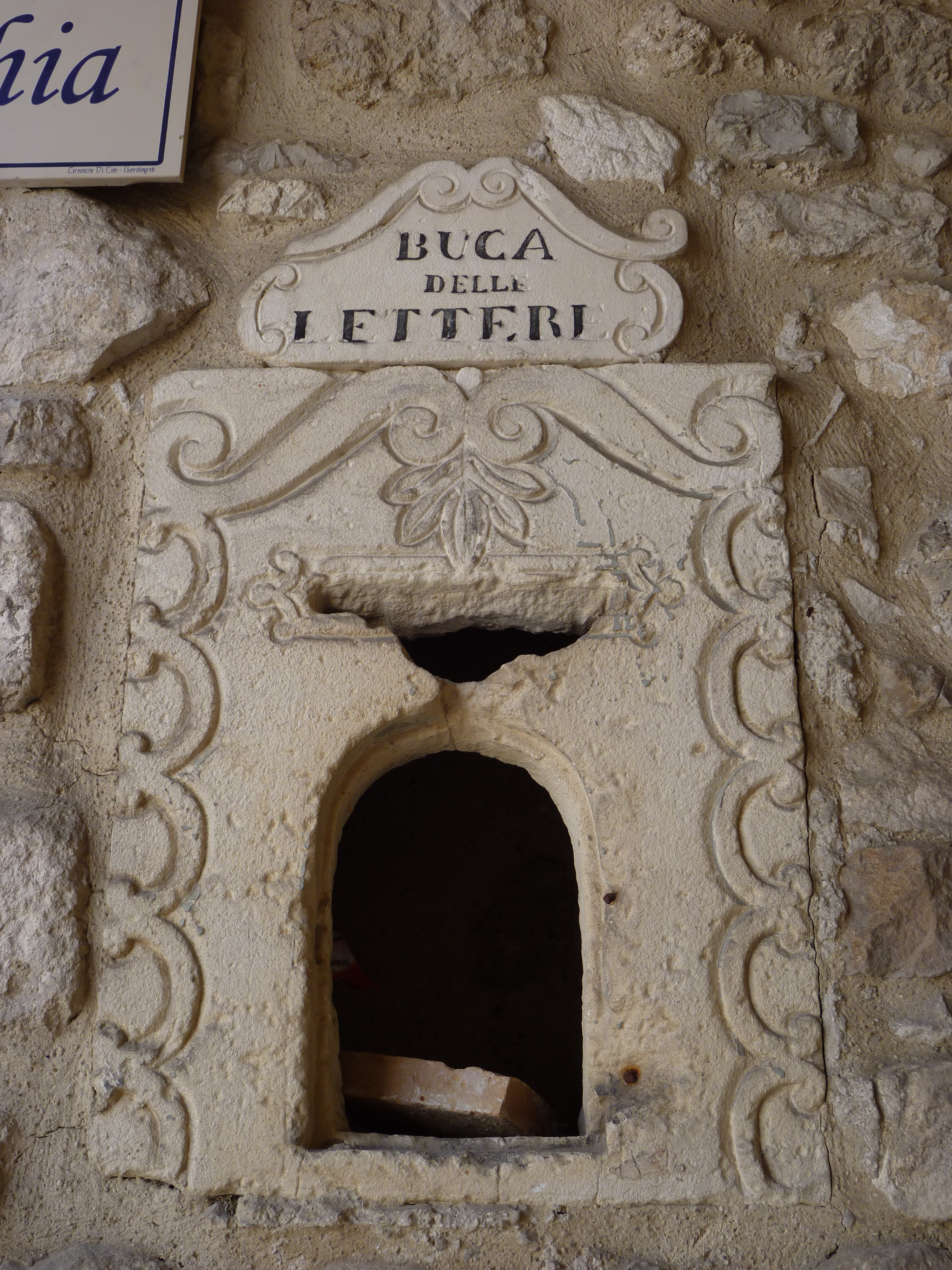 Postbox in the village of Terravecchia, Fara San Martino, province of Chieti, Abruzzo, Italy.